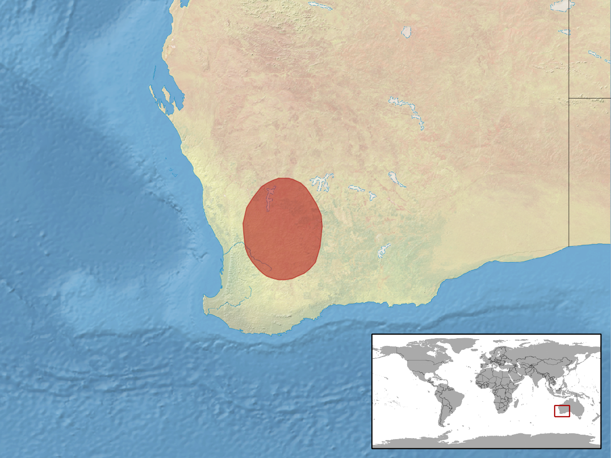 geographic distribution of Ctenophorus ornatus (Native: Australia (Western Australia))